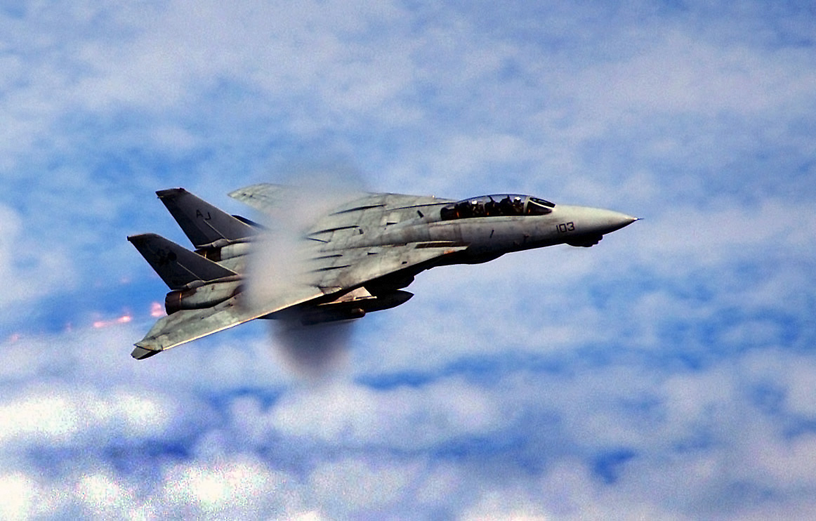 A US Navy (USN) F-14D TOMCAT aircraft assigned to Fighter Squadron Three One (VF-31) performs a high-speed fly-by causing the moisture in the air around the aircraft to condense into VAPOR, as the aircraft breaks the sound barrier. The aircraft is assigned aboard the Nimitz Class; Aircraft Carrier, USS THEODORE ROOSEVELT (CVN 71) (not shown).